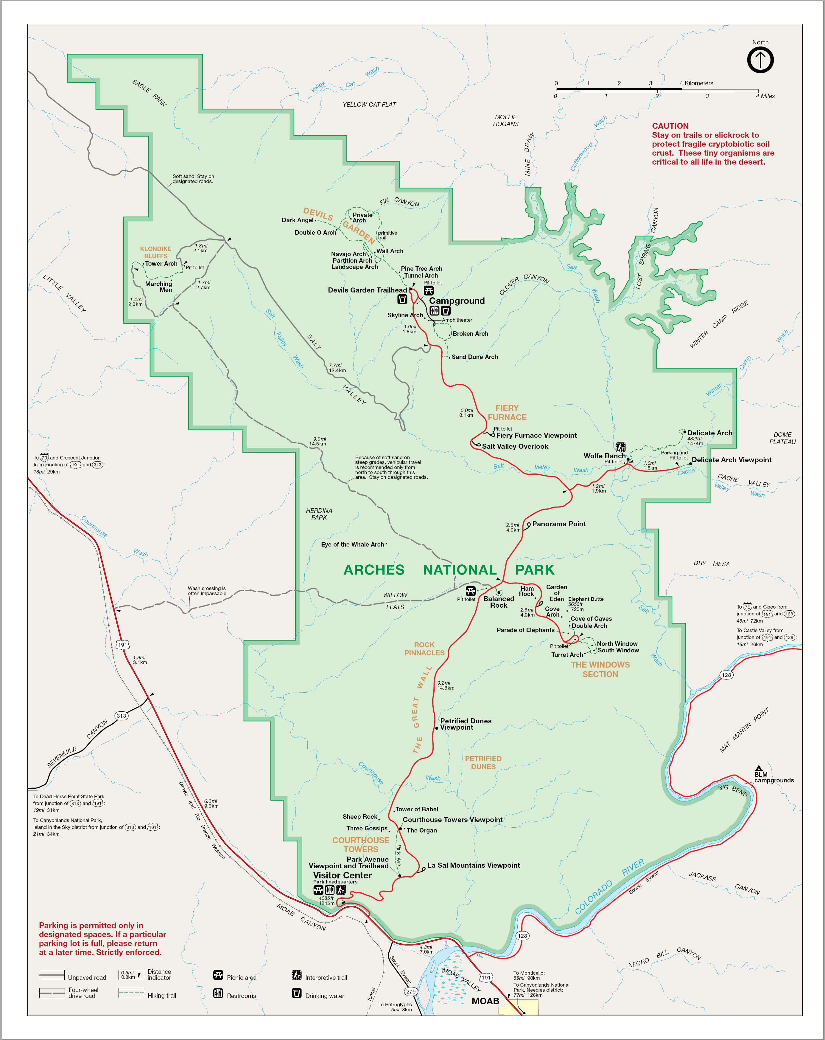 Map of Arches National Park